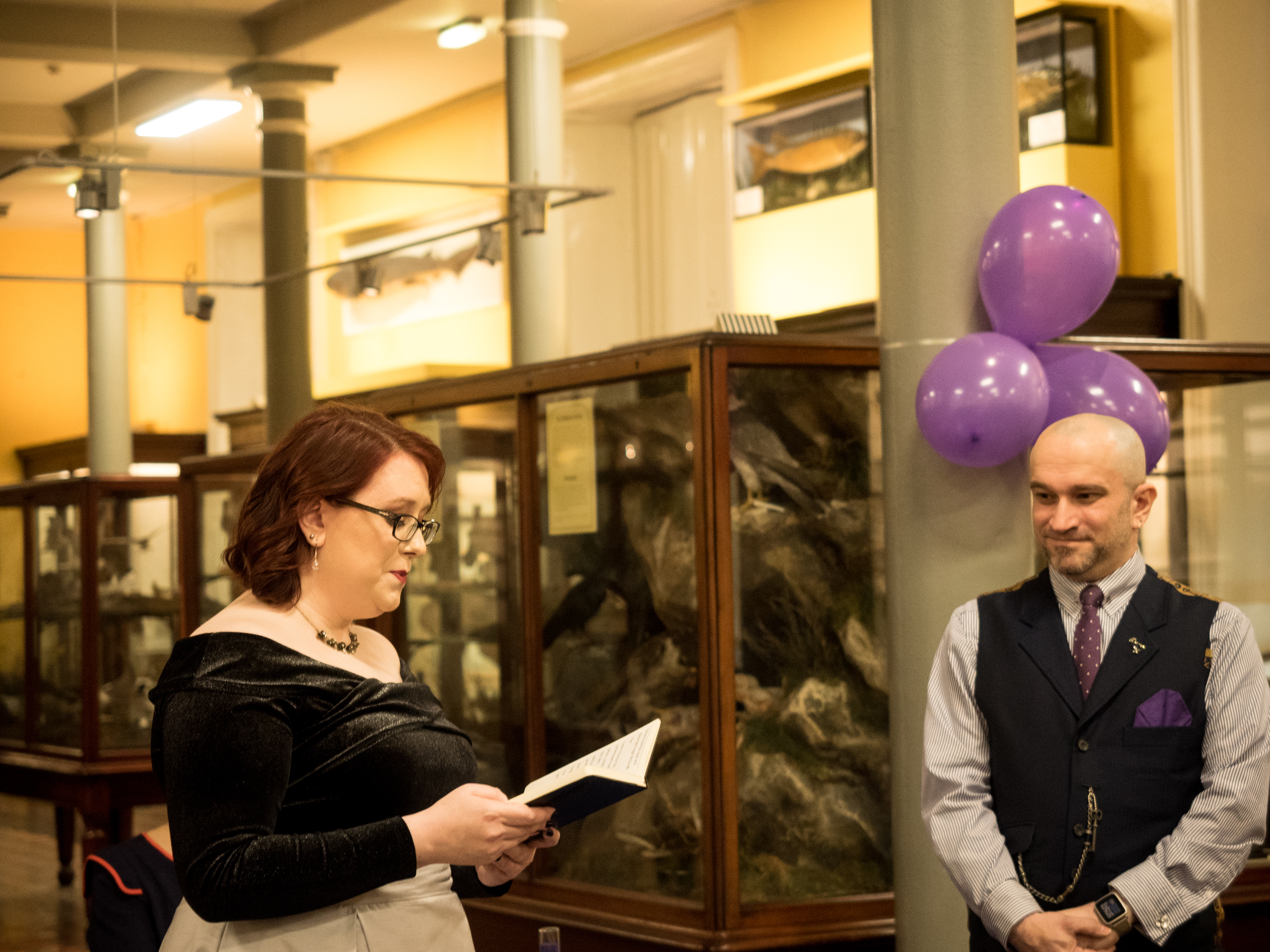 The first wedding ceremony to take place in the Natural History Museum Dublin, 15 January 2018.